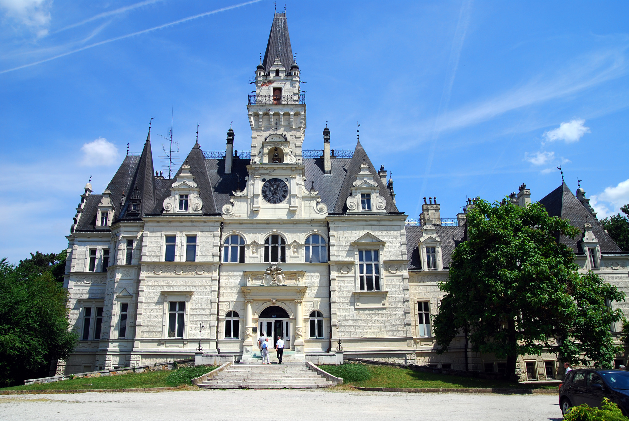 Budmerice castle